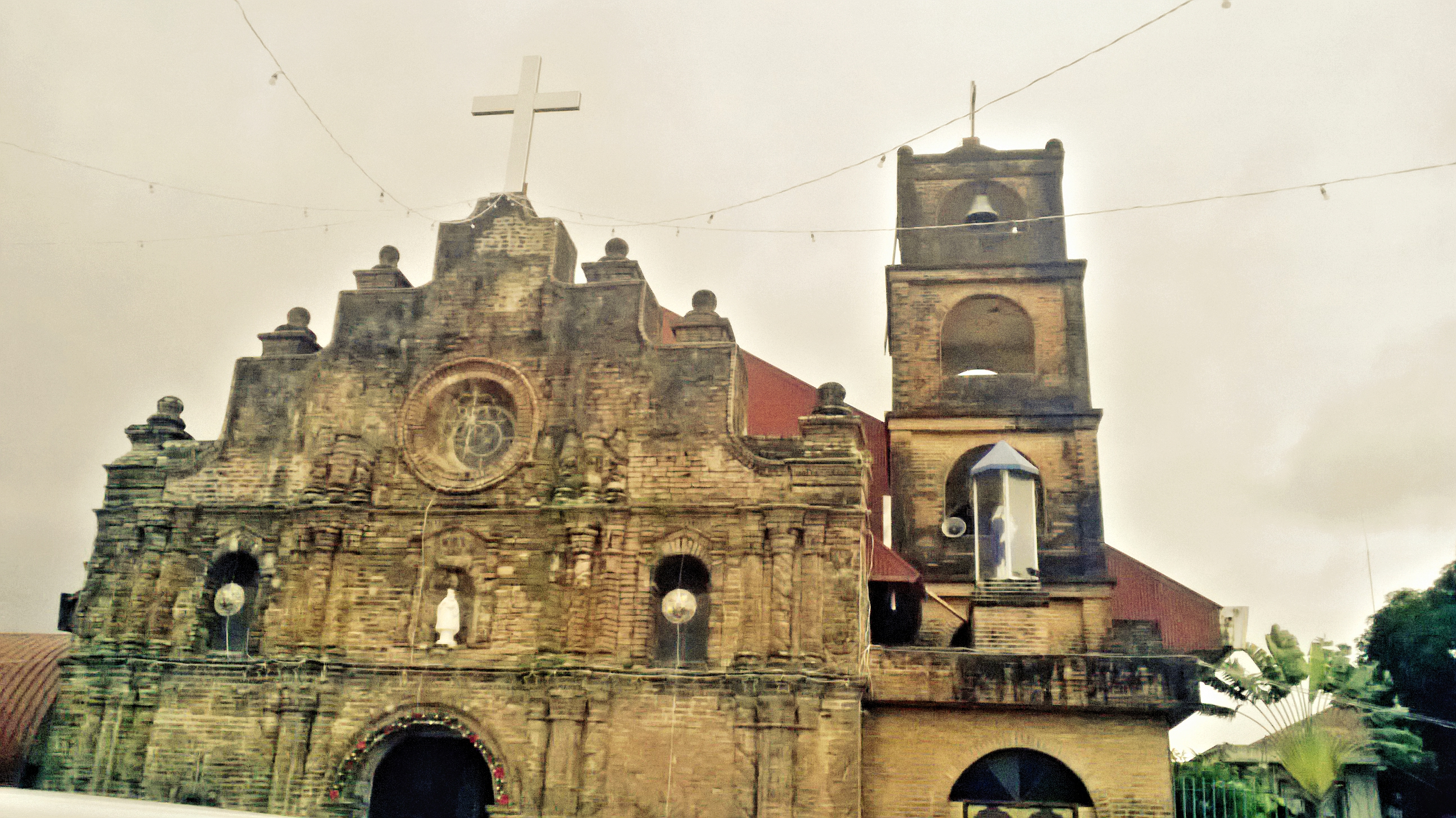 Parish church located at Cauayan, City